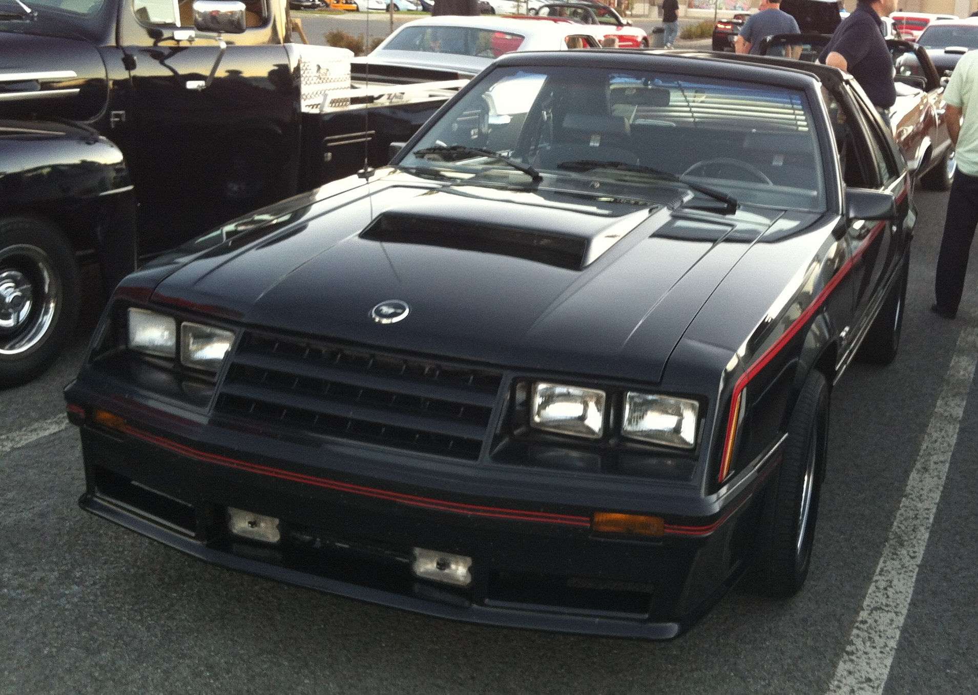 Ford Mustang photographed in Laval, Quebec, Canada at Les chauds vendredis.